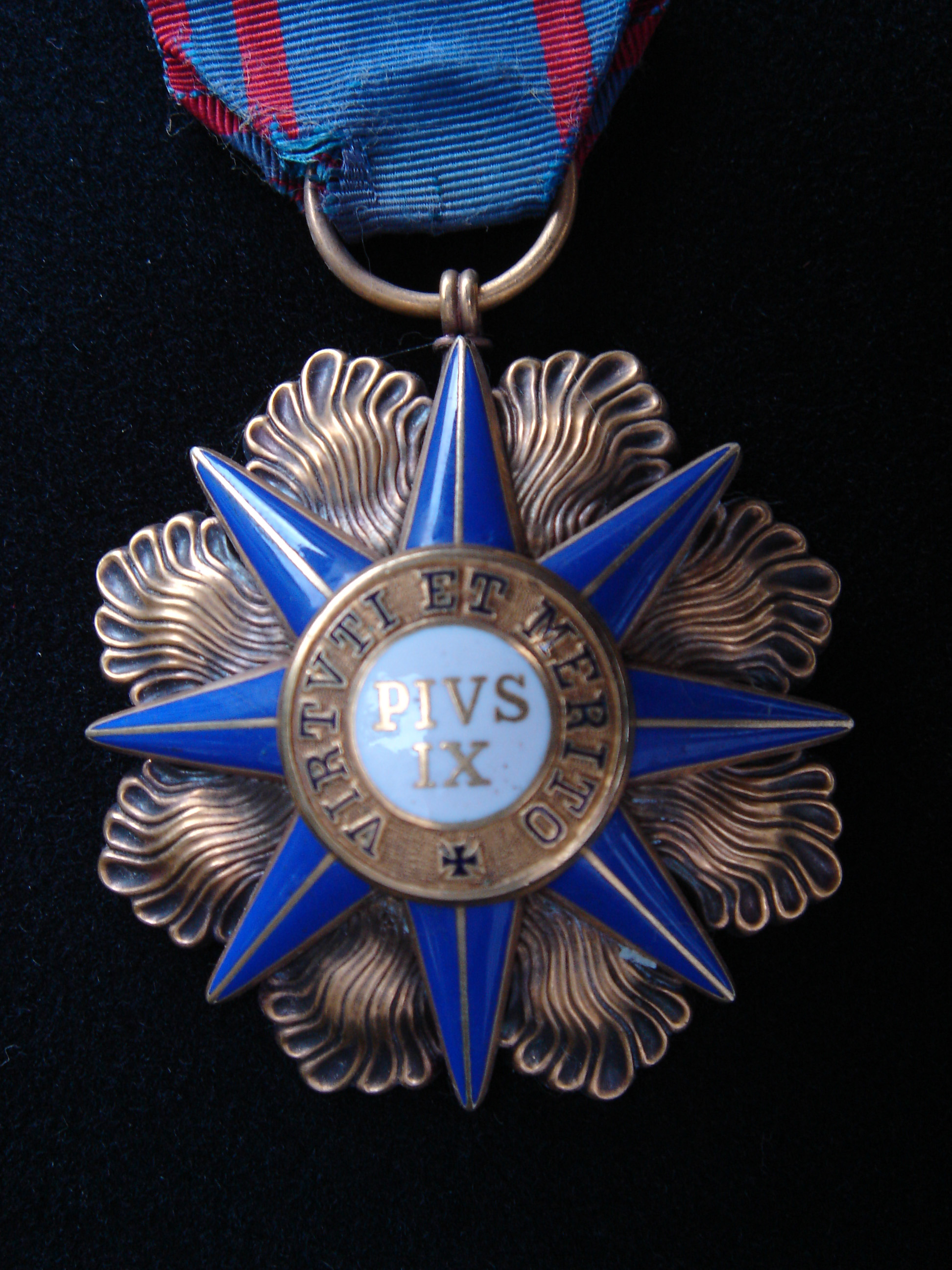 Order of Pius IX - Grade of Commander